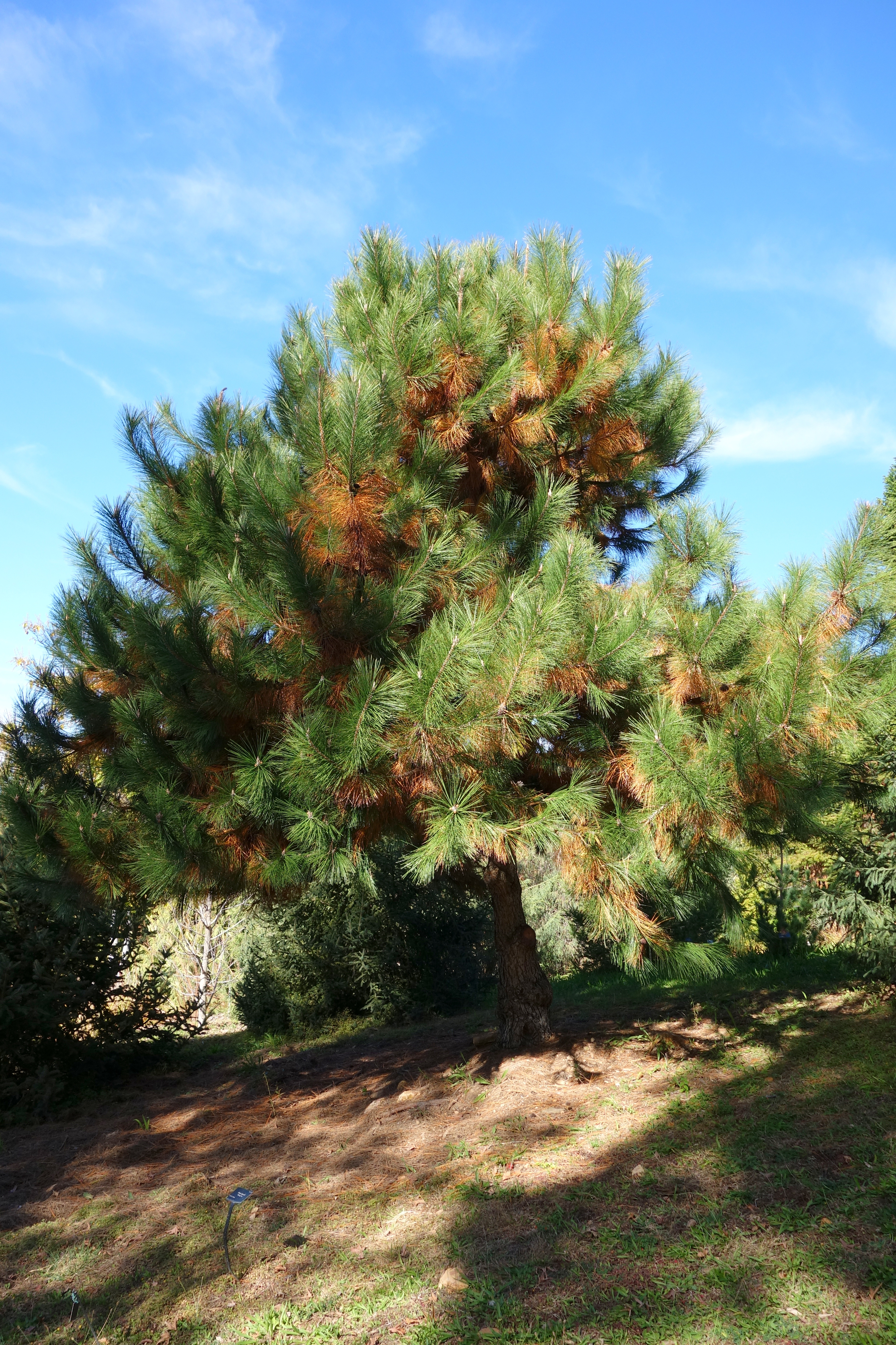 Botanical specimen in Quarryhill Botanical Garden, Glen Ellen, California, USA.